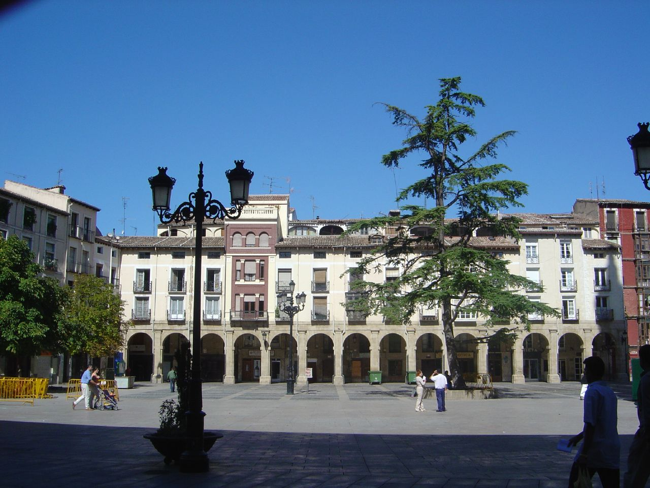 Plaza del mercado (Market Square) in the old city of Logroño, La Rioja (Spain)